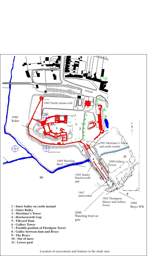 Реконструкція та реставрація замку у 20 ст.